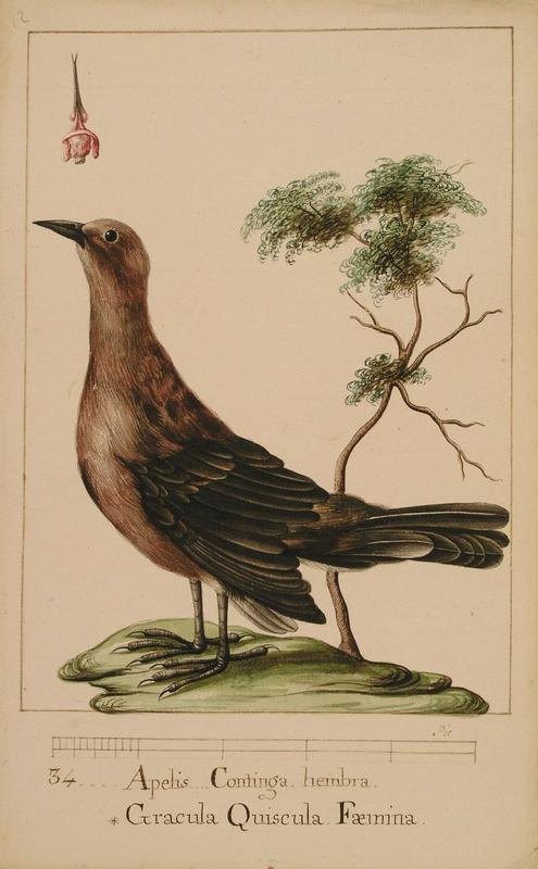 From the previously unpublished work of José Mariano Mociño of the Real Expedición Botánica a Nueva España (1787-1803). ACN0110B/002/4729: Apelis Continga. Linn. *Granula Quiscula. Faemina. (Actual Classification: Quiscalus palustris, Sex: Adult Female.)